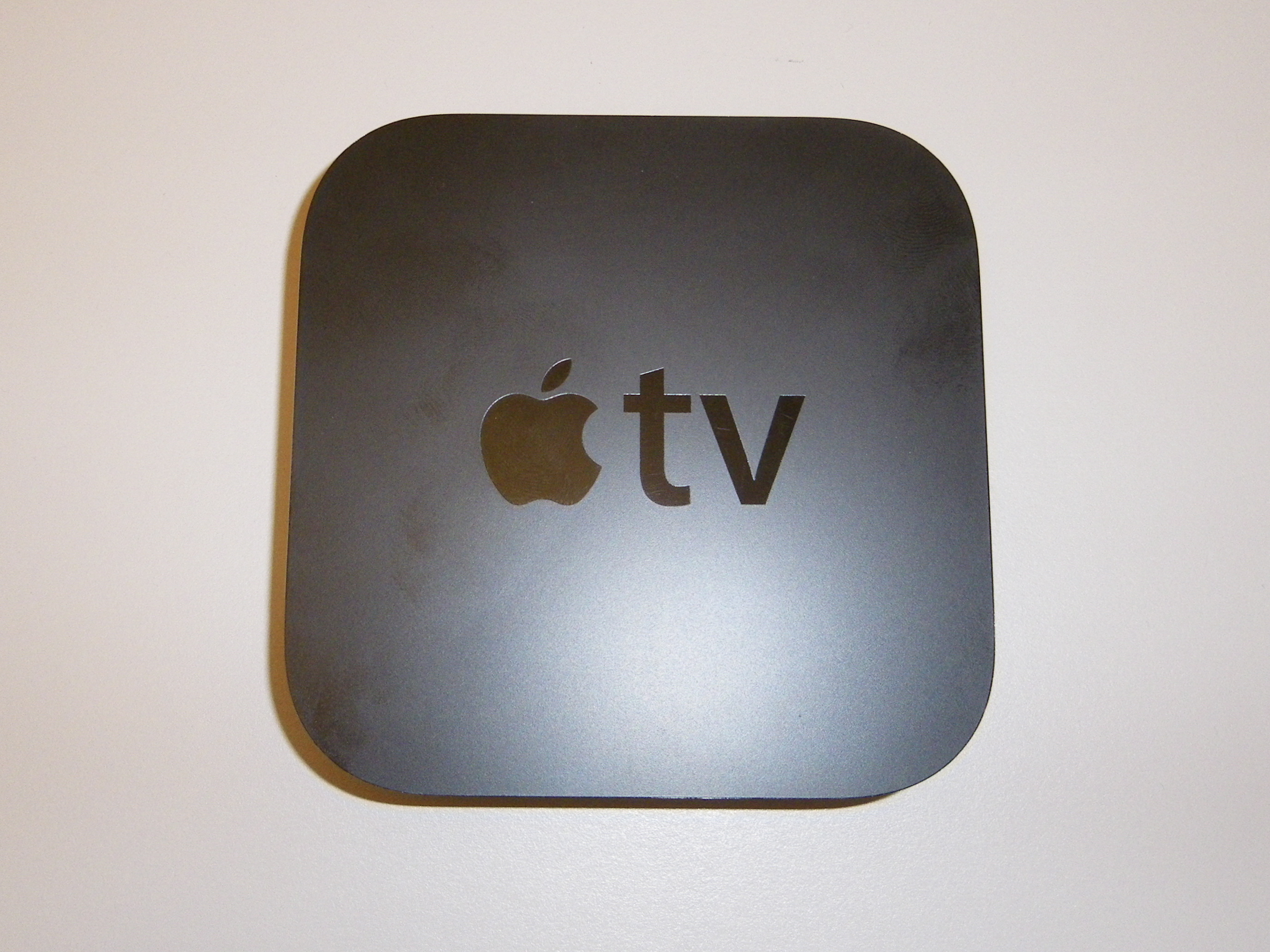 The new, second-generation Apple TV. This is now released, shipping product which is in customers' hands.